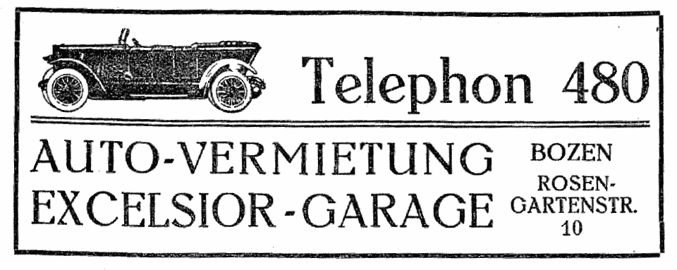 Car rental in Bozen-Bolzano in 1925